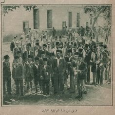 Tawfikia school October 1932